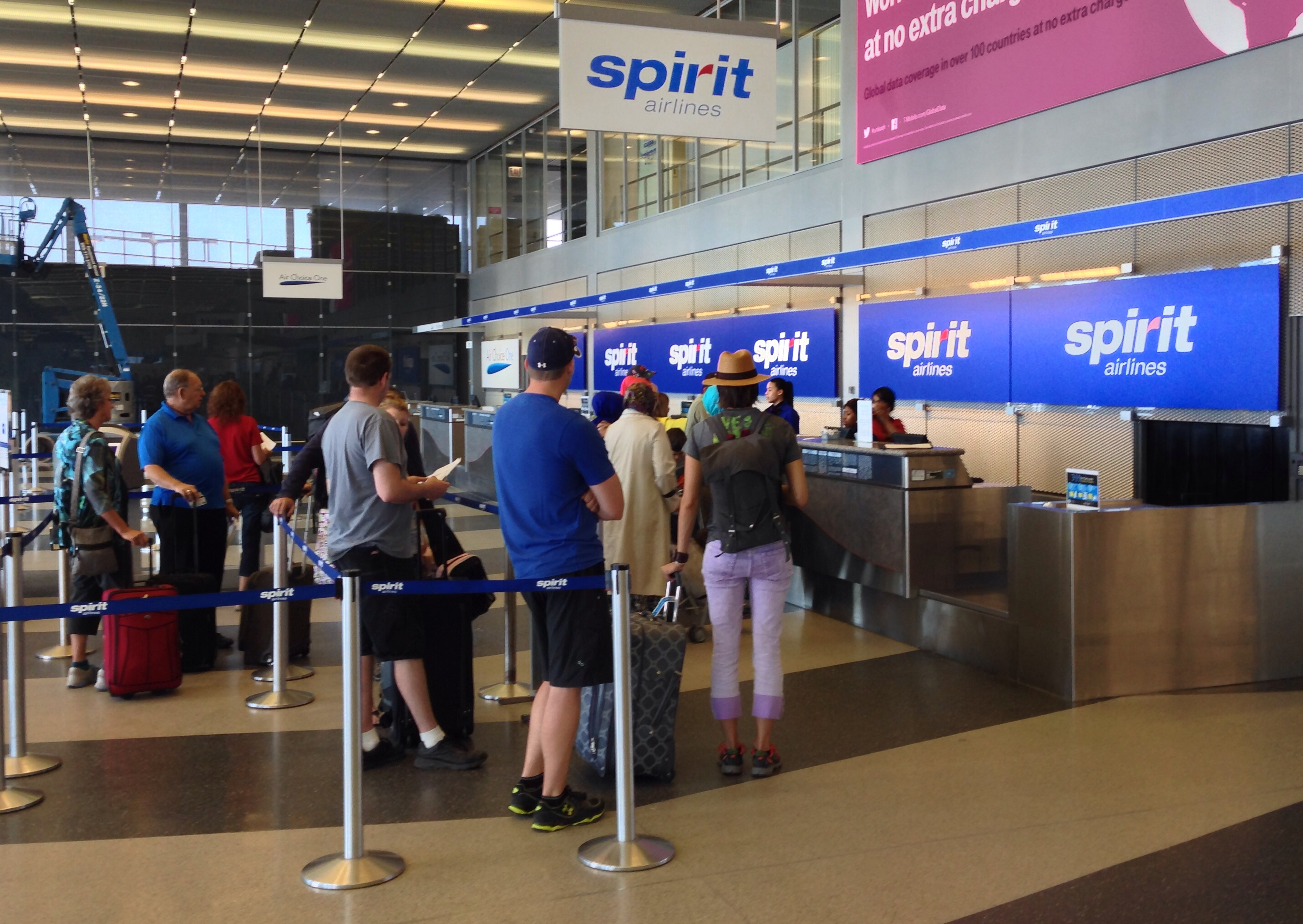 Spirit Airlines Check In, 10000 West O'Hare Ave, Chicago, IL 60666, USA - Jun 2014